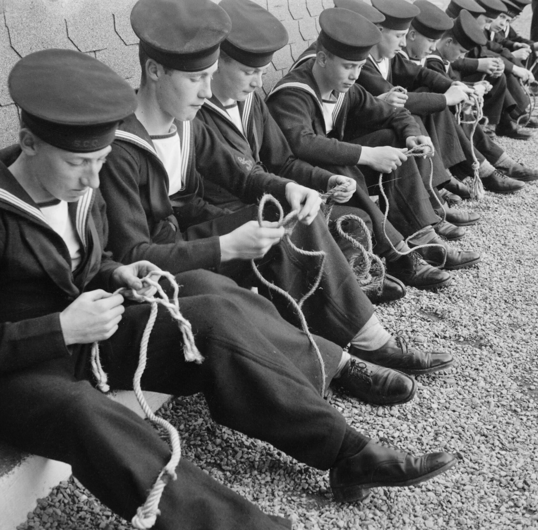 They Learn To Be Sailors- Sea Cadet Training on the Training Ship HMS Undine, Bowness-on-windermere, England, UK, 1943 Sea Cadets learn to tie knots and splice rope at HMS UNDINE at Bowness-on-Windermere.